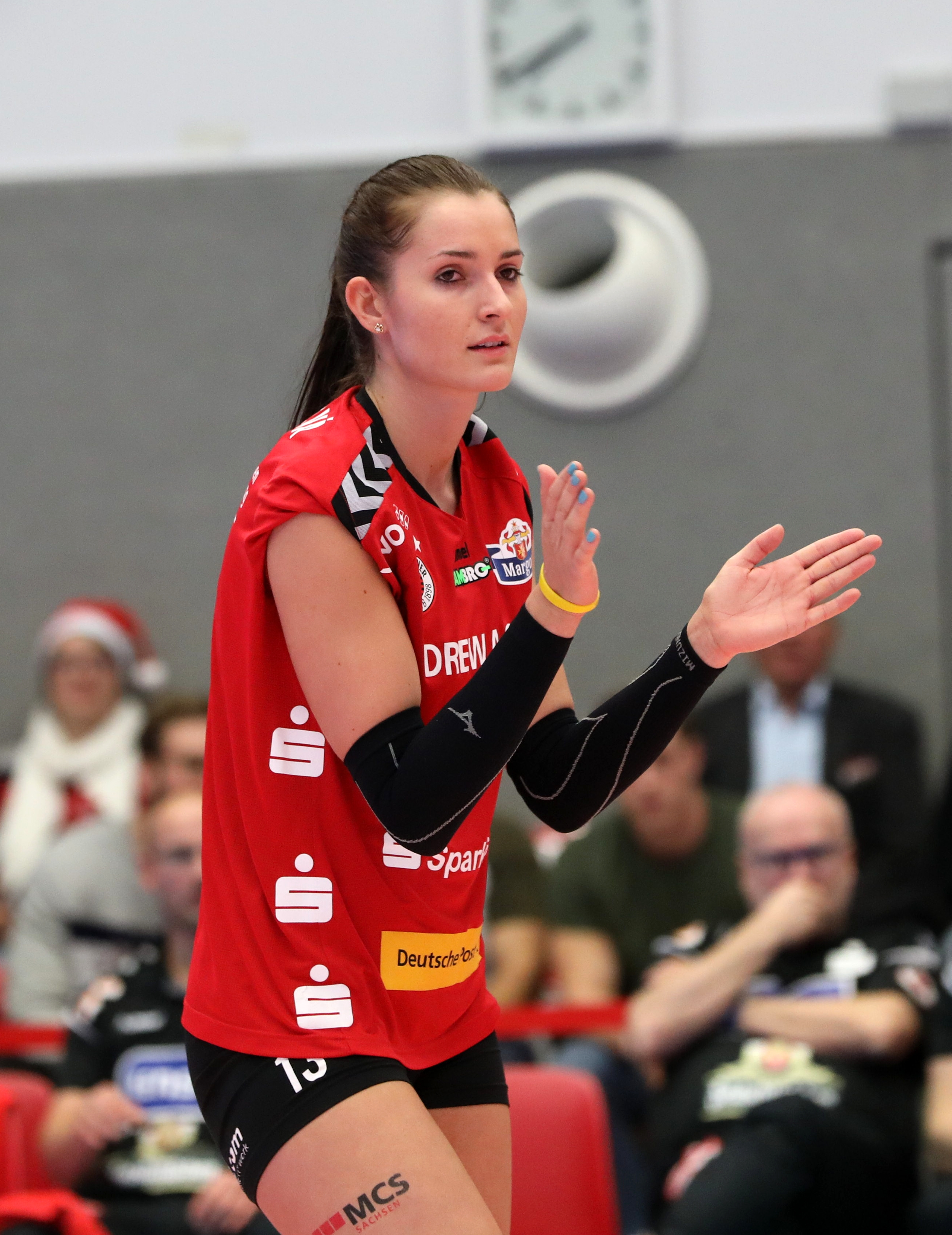 Eva Hodanová (Dresdner SC) at the game of the Dresdner SC vs. SSC Palmberg Schwerin (3:2; 20:25, 25:7, 21:25, 27:25, 15:13) at the 6th December 2017)